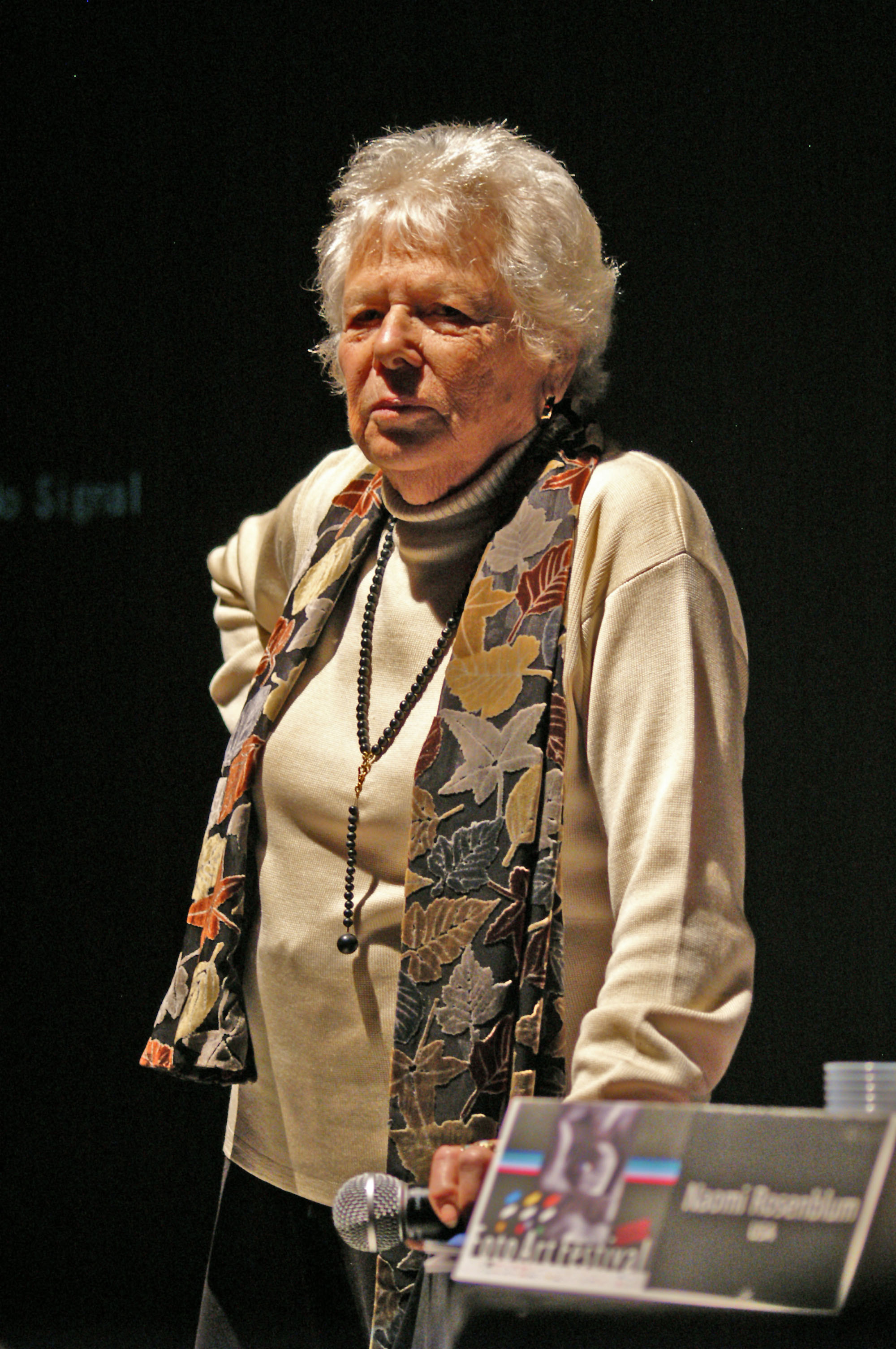 Naomi Rosenblum American historian of photography during FotoArtFestival 2007 in Bielsko-Biala, Poland